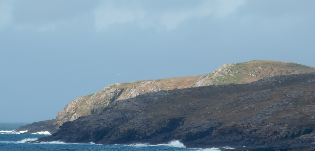 Biruaslum stack off Vatersay, Outer Hebrides